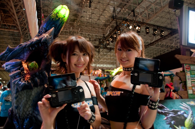 Reika Hino (left) and Aoi Haruka (right), the promotional models of Capcom booth at Tokyo Game Show 2011.